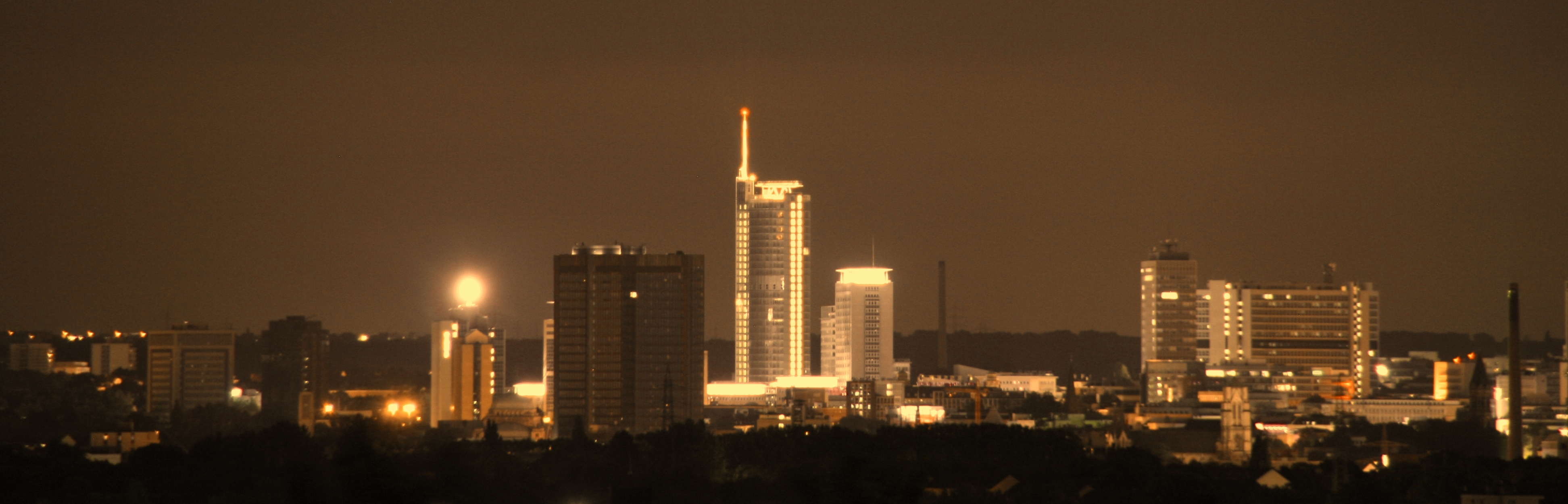 Skyline of Essen at night, view from the top of the "Schurenbachhalde".